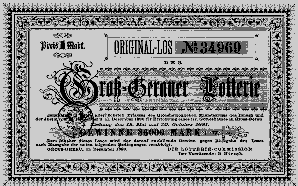 Lottery ticket emitted in 1892 for the construction of the synagogue of Gross-Gerau in Hesse (Germany). Synagogue destroyed by the nazis